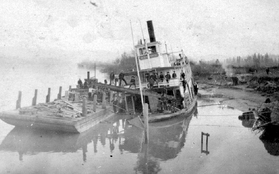 Sternwheeler Ramona aground in British Columbia waters at McKay's Landing. This vessel previously operated on the Willamette River.